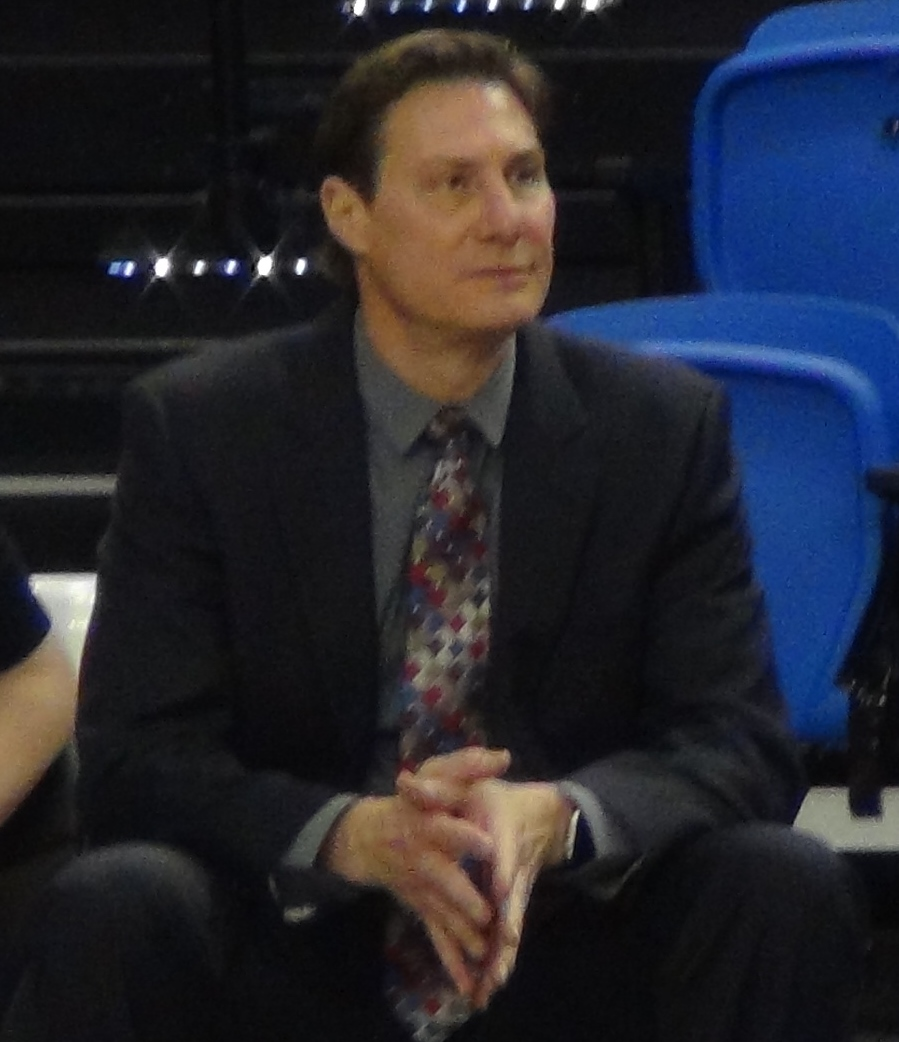 Paul Thomas, Saint Mary's College of California women's basketball head coach, at the Event Center in San Jose, Calif. for Saint Mary's away game at San Jose State on Dec. 3, 2016.